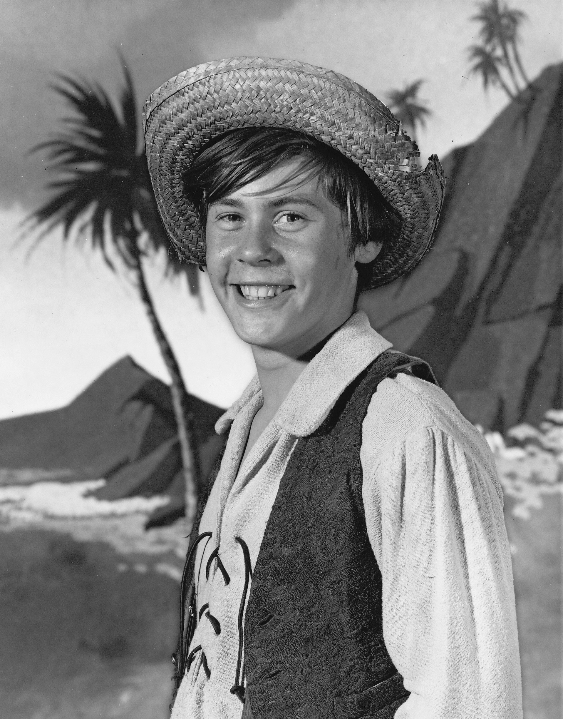 Publicity photo of teen actor Michael Shea promoting the premiere of the television series The New Adventures of Huckleberry Finn.